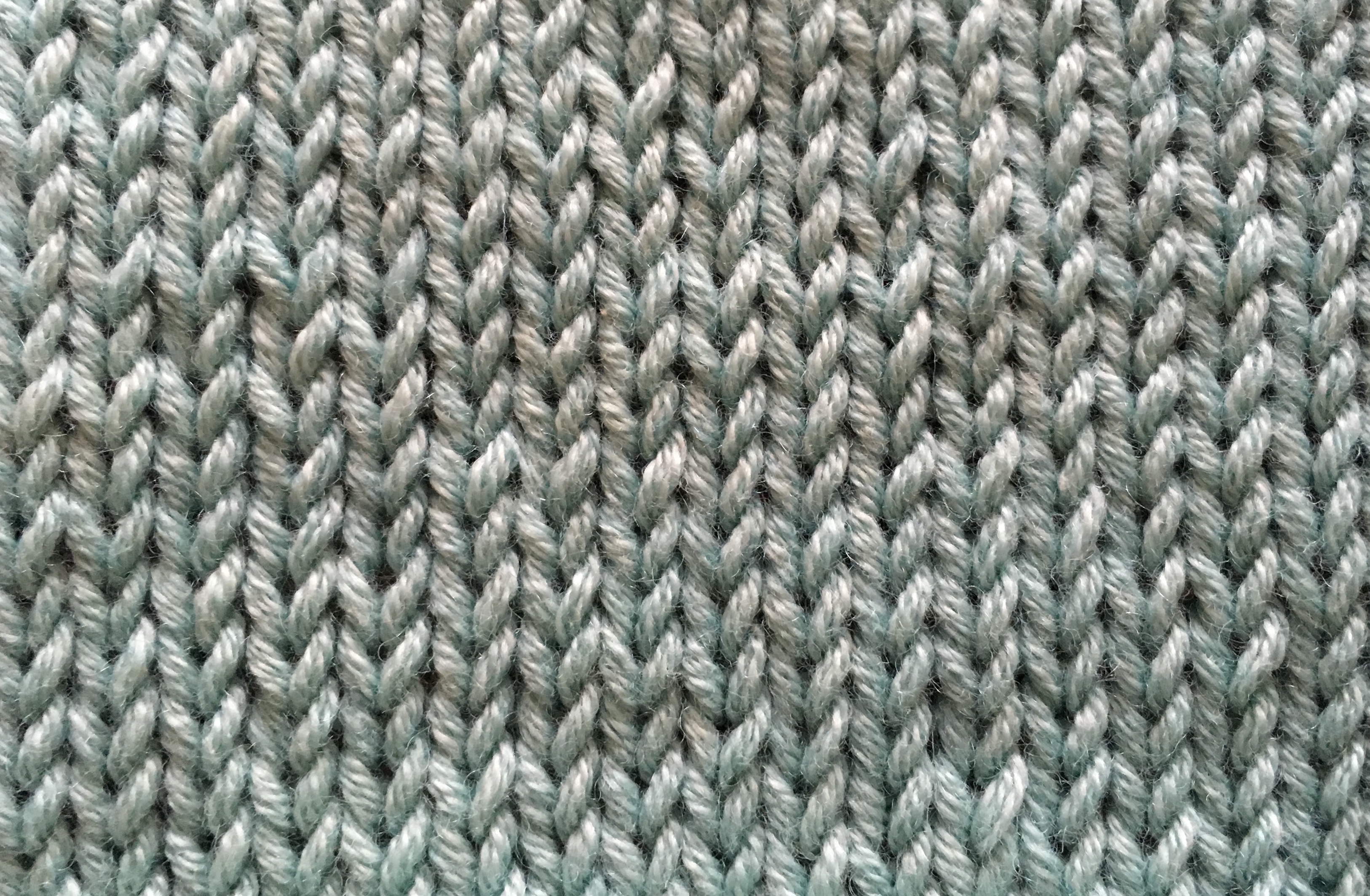 Knitting swatch of stockinette stitch.